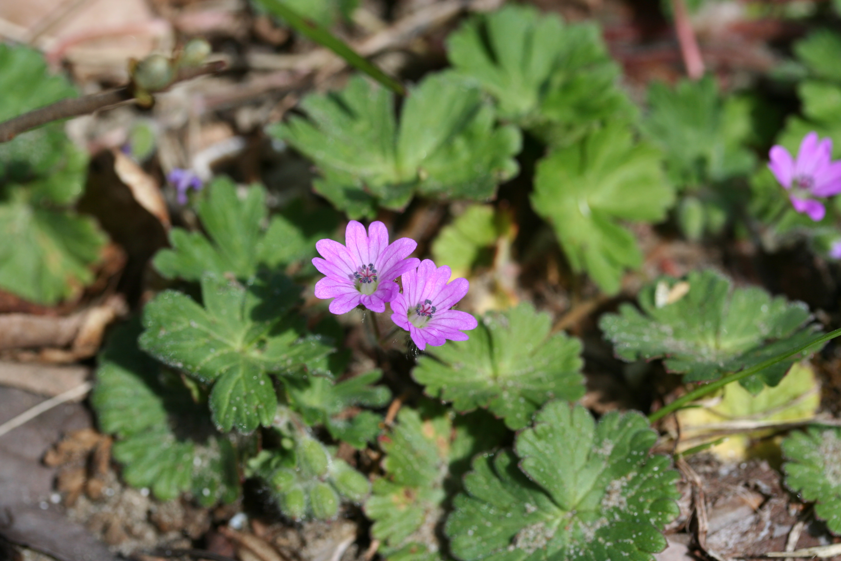 Geranium molle 29 april 2006 IJmuiden, the Netherlands